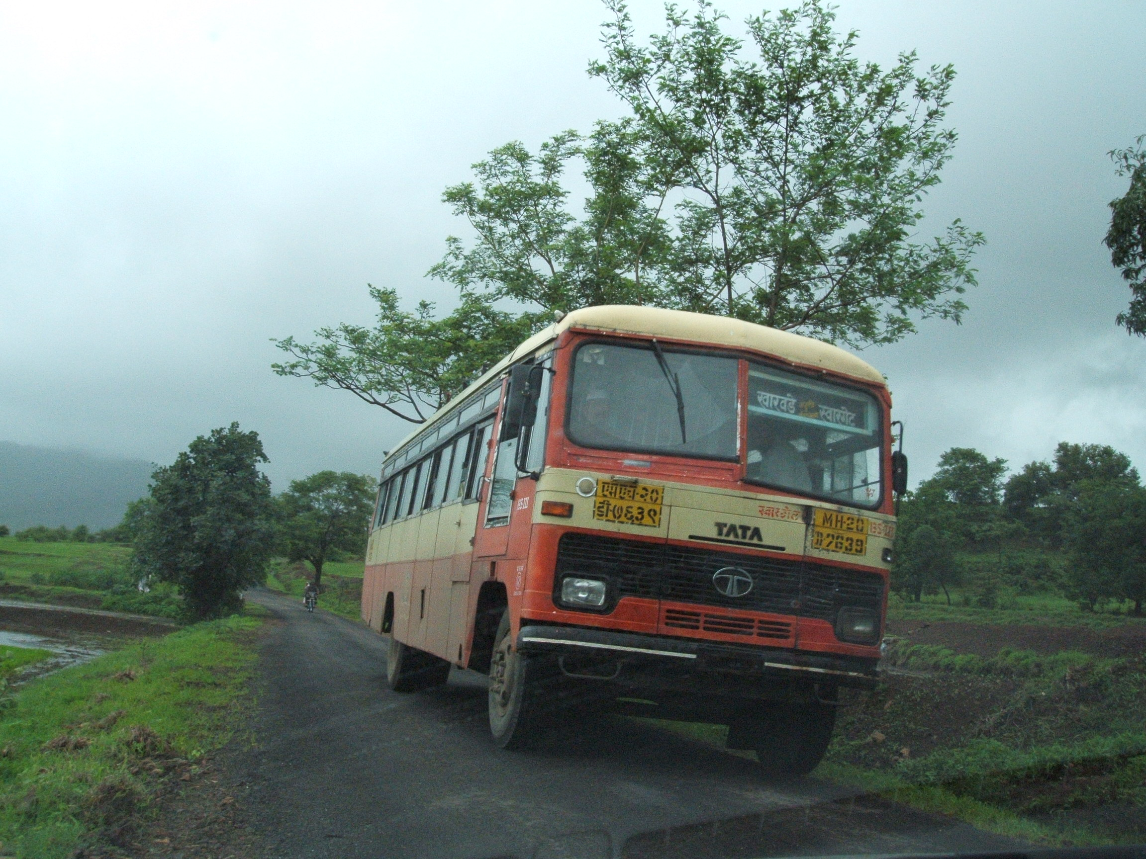 A sturdy Maharashtra State rural Tata bus goes about its duties in lush green rain soaked rural countryside near the Western Indian city of Pune.The MSRTC (Maharashtra State Road Transport Corpn.) is the state bus authority in Maharashtra. They have a slogan: where there is a road, there is an ST bus. True enough, in remote places that see little or no traffic, the ubiquitous ST bus will almost invariably be there. (Pune/ Poona, July 2007)